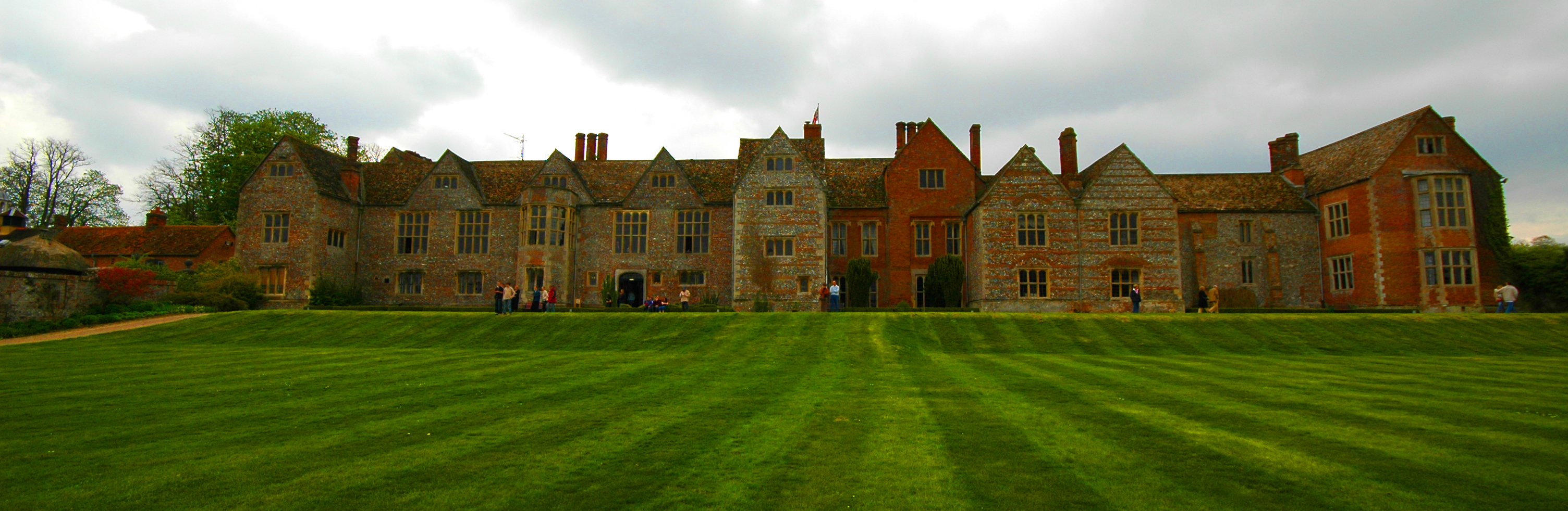 Littlecote House